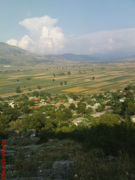 Frashtani, village in Albania